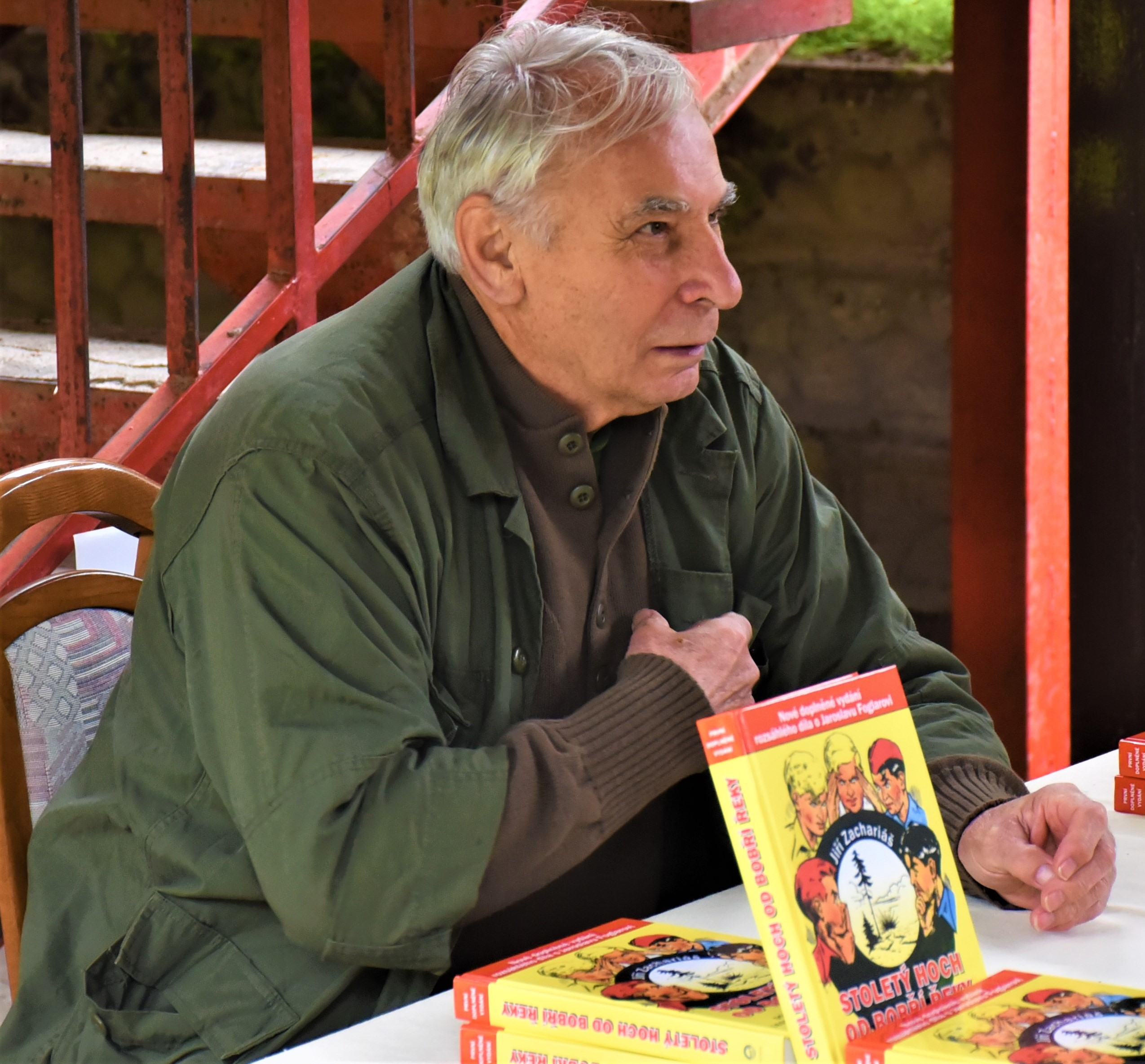 Jiří Zachariáš-Pedro, Czech scout, publicist and writer